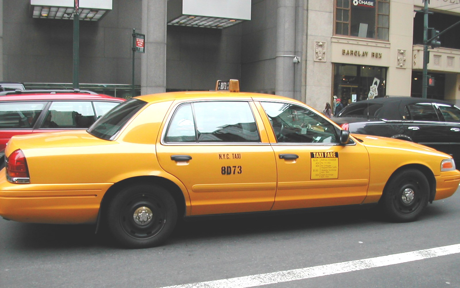 Photo of New York City cab. Cropped and enhanced version of Image:DSCN1386.JPG, taken and uploaded by user:Nrbelex at 19:56, 27 March 2005.